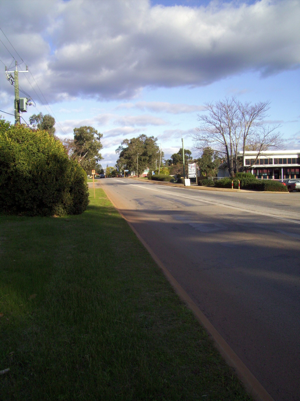 Looking southbound on the Great Northern Highway in Bindoon, Western Australia